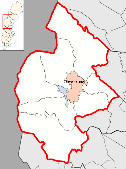 Östersund Municipality in Jämtland County Designd by me, based on Image:Jämtland County.png